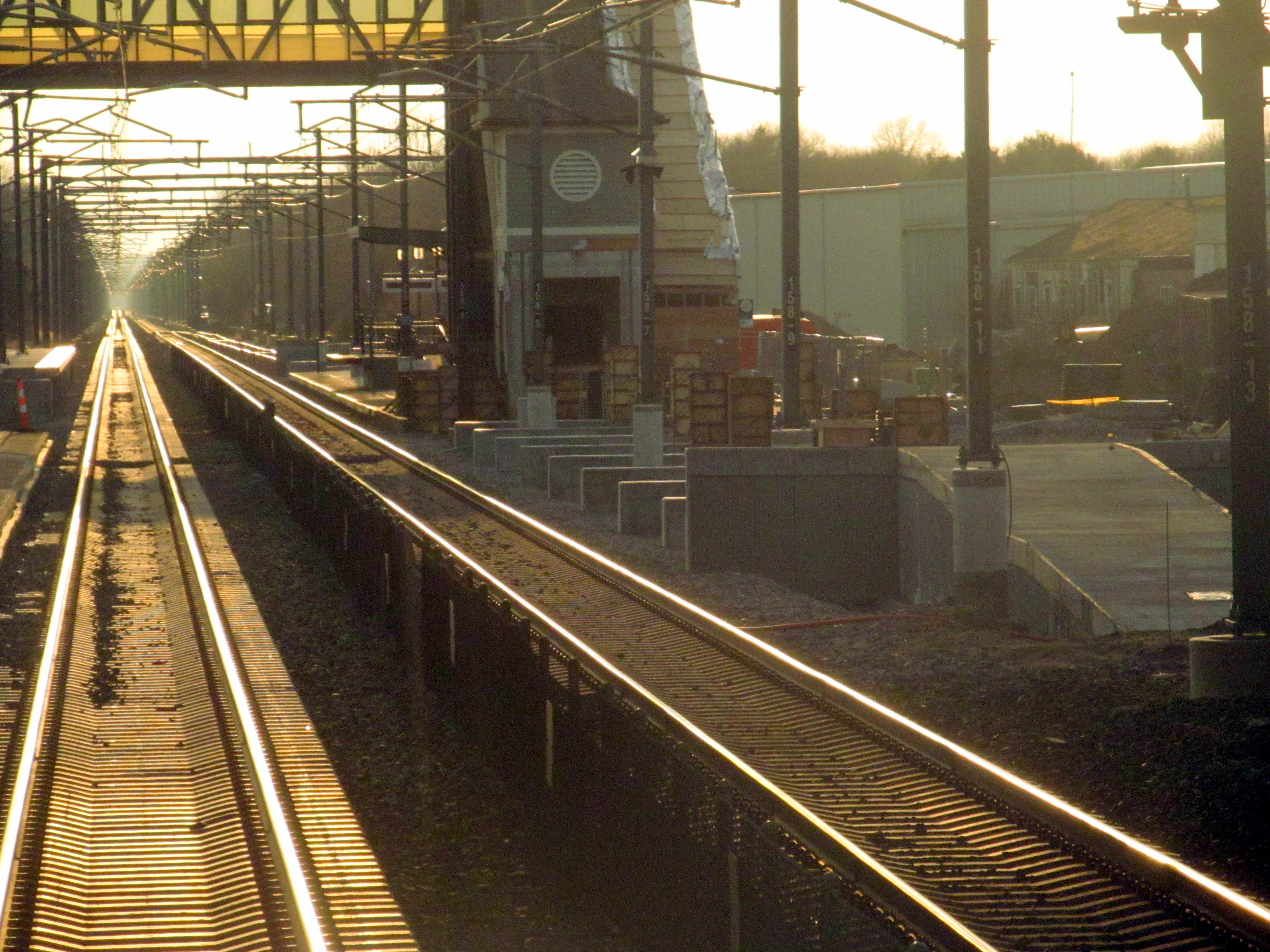 High platforms under construction at Kingston in January 2016. The project, which includes a 1.5 mile third track, will be completed in 2017.